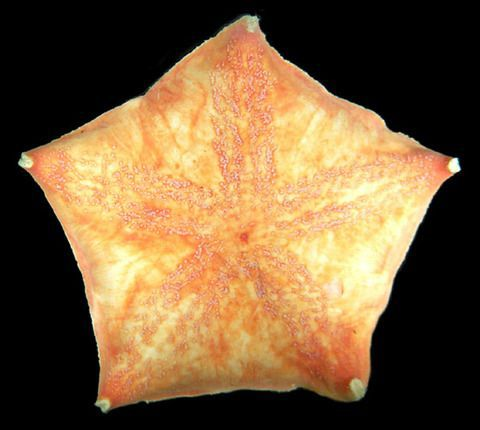 Chondraster grandis (Verrill, 1878) - Preserved specimen Chondraster grandis (YPM IZ 028258). Digital Image: Yale Peabody Museum of Natural History; photo by Daniel J. Drew 2006 Location Country or area United States of America Decimal latitude 39.88333 Decimal longitude -67.43333 Geodetic datum WGS84 Georeference protocol unspecified Georeference remarks ex Argus Georeference sources unspecified Higher geography North America; Atlantic Ocean; USA; Bear Seamount Locality Bottom depth: 1195-1402 m Municipality Bear Seamount Water body Atlantic Ocean